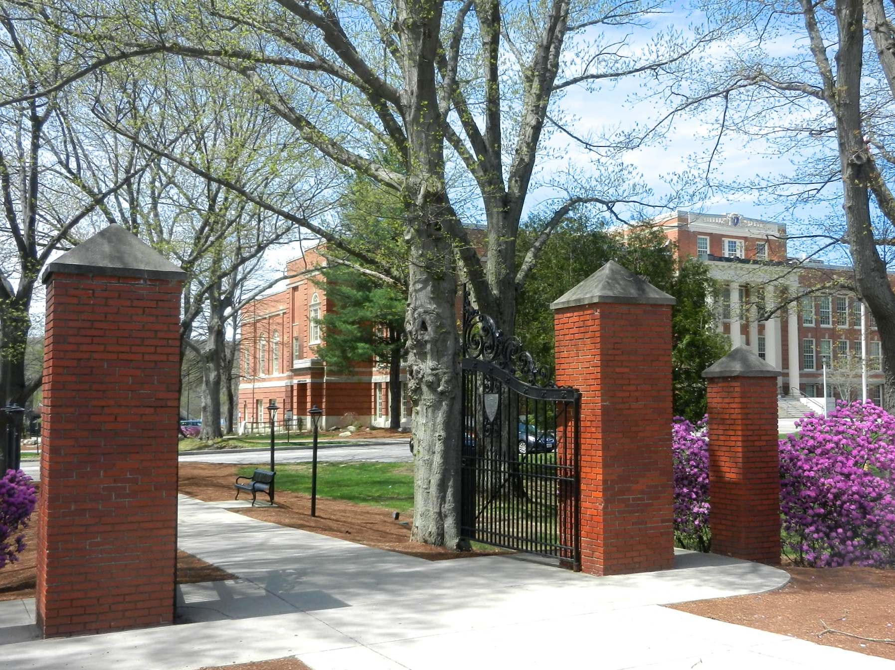 Alumni Gates on the campus of Worcester State University in Worcester, Massachusetts